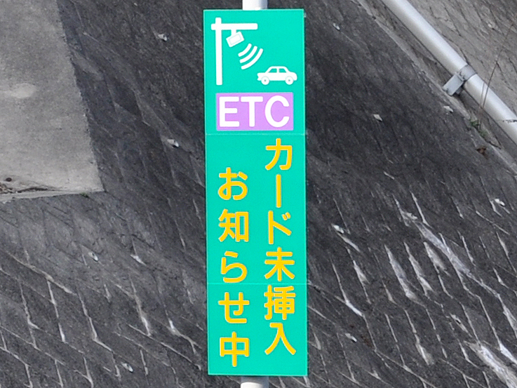 Sign of antenna remiding of insertion of ETC card. Photographed in Yokohama, Japan.